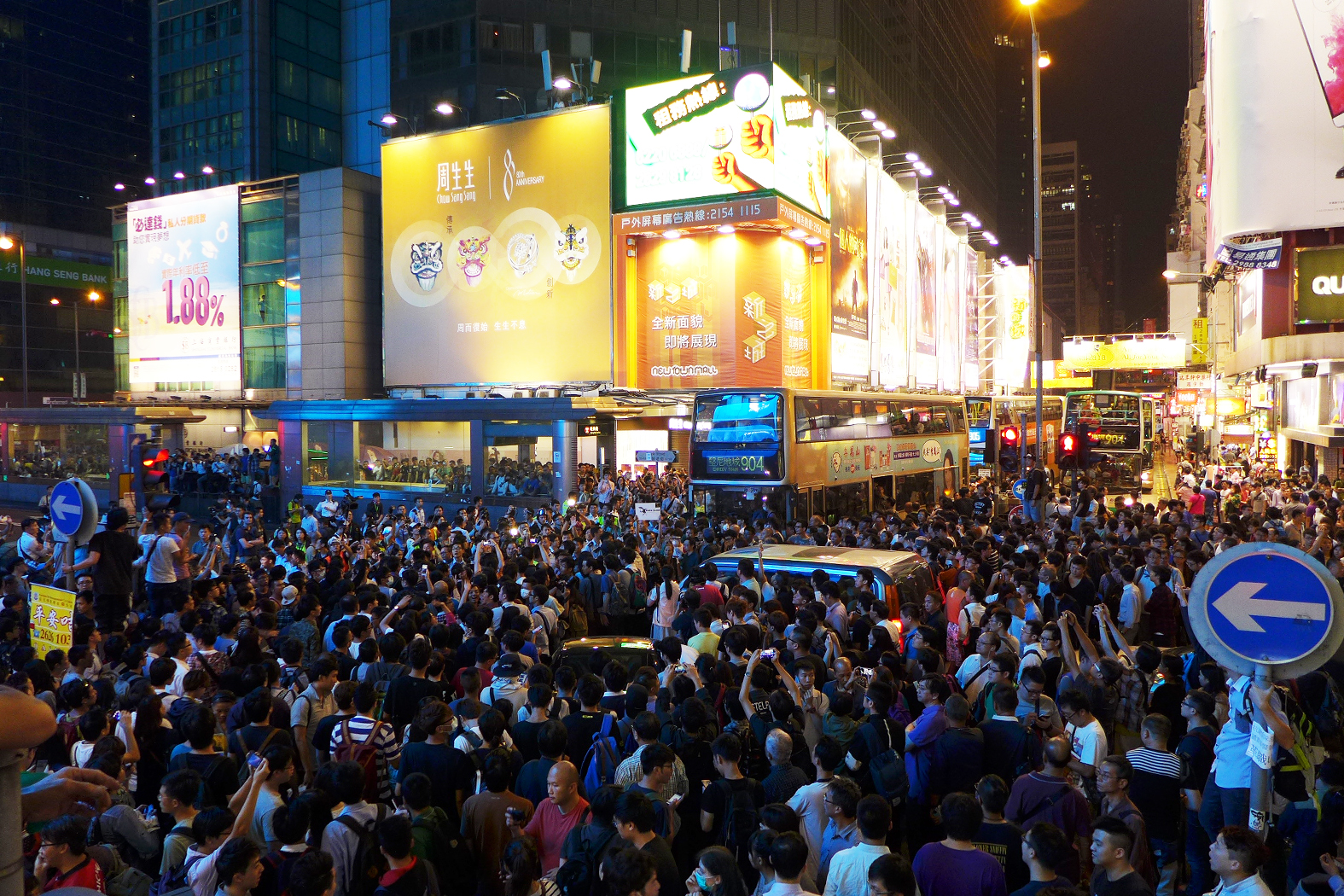 Umbrella Revolution in Mong Kok Argyle Street